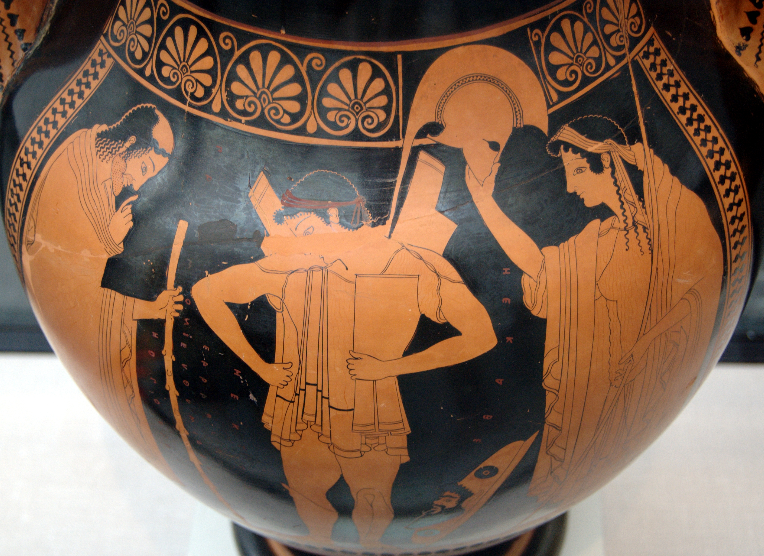 Hector putting his armor on, surrounded by Priam and Hecuba. Side A of an Attic red-figure amphora, ca. 510 BC. From Vulci.